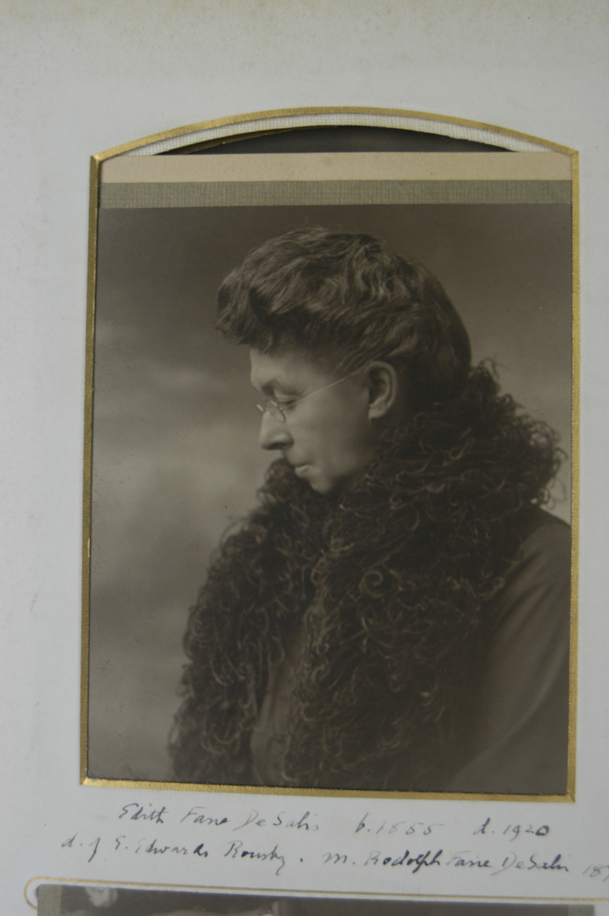 Photograph (by me, R. de Salis, Rodolph (talk) 02:26, 18 August 2015 (UTC)) of a photo of Edith Rousby (1855-1920), aka Mrs Rodolph Fane De Salis. Other information Photograph of Edith Rousby (1855-1920), aka Mrs Rodolph Fane De Salis. Sitter died in 1920. In this photo she looks about 50, so made circa 1900.